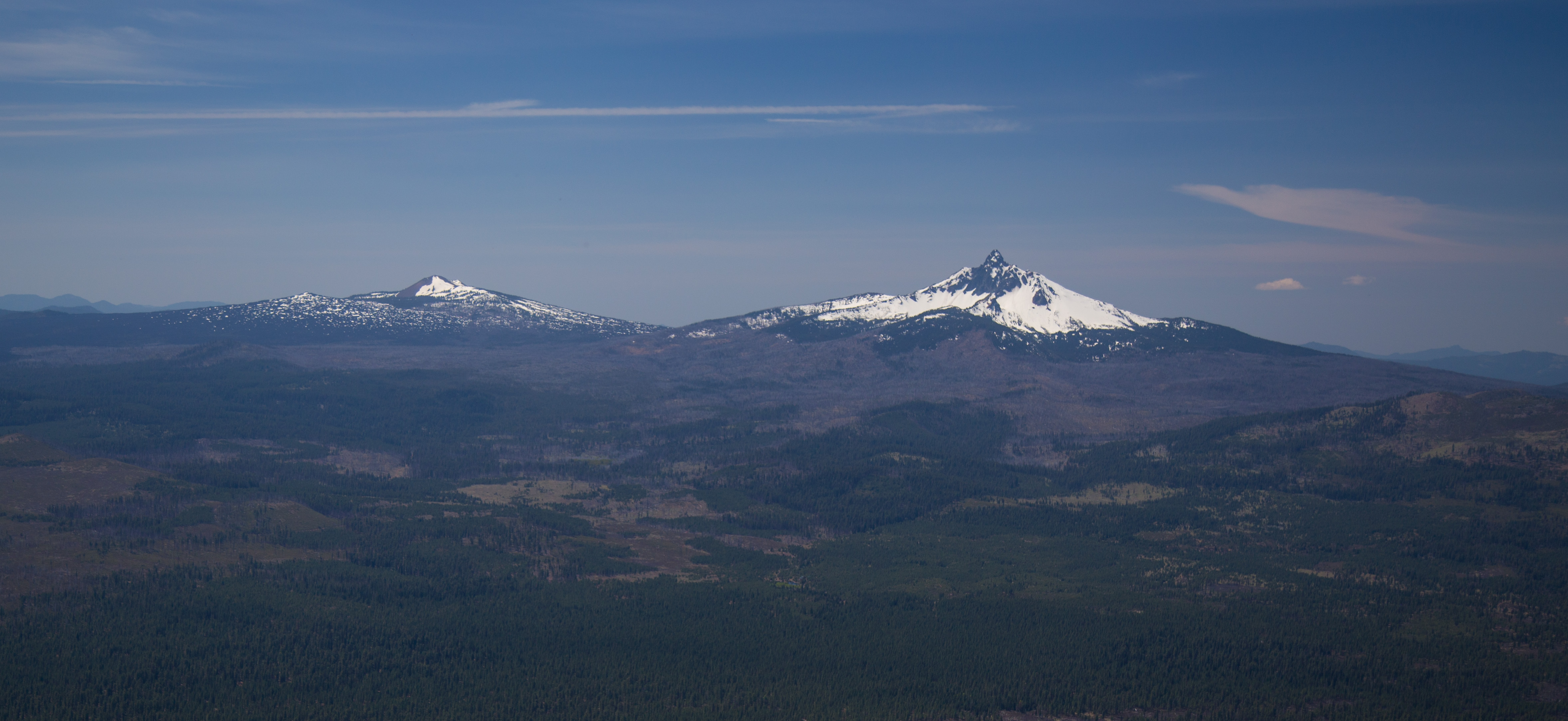 Mount Washington (Oregon) (right) and Belknap Crater seen from Black Butte summit